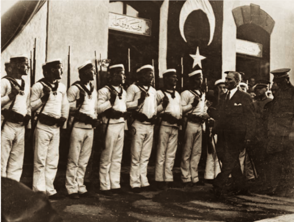 Kemal Atatürk (or alternatively written as Kamâl Atatürk, Mustafa Kemal Pasha until 1934, commonly referred to as Mustafa Kemal Atatürk; 1881 – 10 November 1938) was a Turkish field marshal, revolutionary statesman, author, and the founding father of the Republic of Turkey, serving as its first President from 1923 until his death in 1938. He undertook sweeping progressive reforms, which modernized Turkey into a secular, industrial nation. Ideologically a secularist and nationalist, his policies and theories became known as Kemalism. Due to his military and political accomplishments, Atatürk is regarded as one of the most important political leaders of the 20th century.